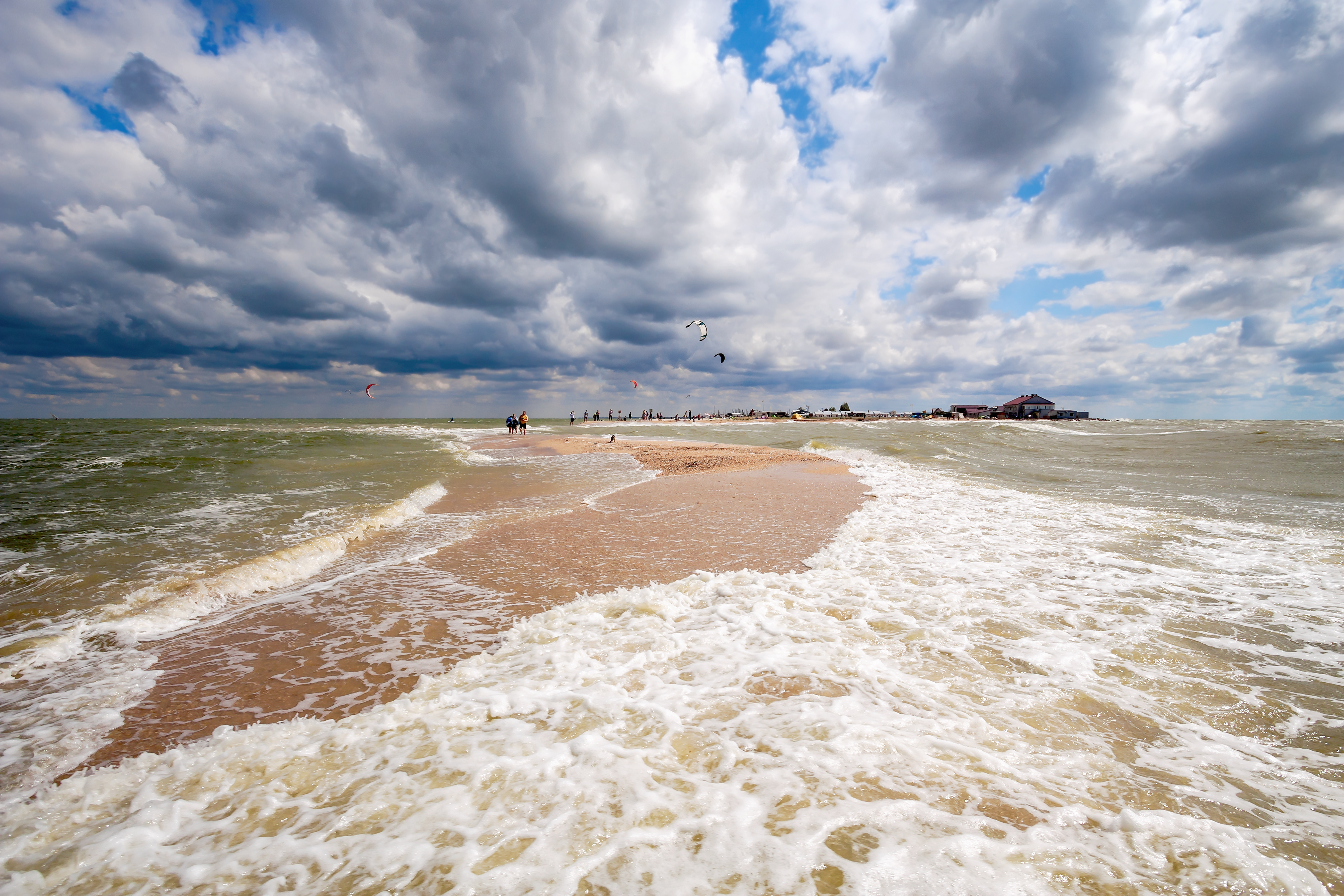 Long Spit, Sea of Azov, Yeisk district, Krasnodar region, Russia